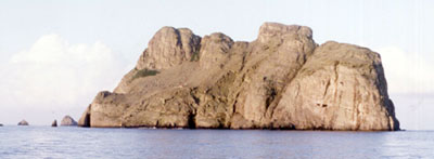 Panorama of Malpelo Island, view to the north.